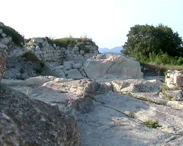 Archaelogical site of Perperikon near Kardzhali, Bulgaria, dating back to the Thracians. Date taken: 2 June 2006. Author: K.Popova